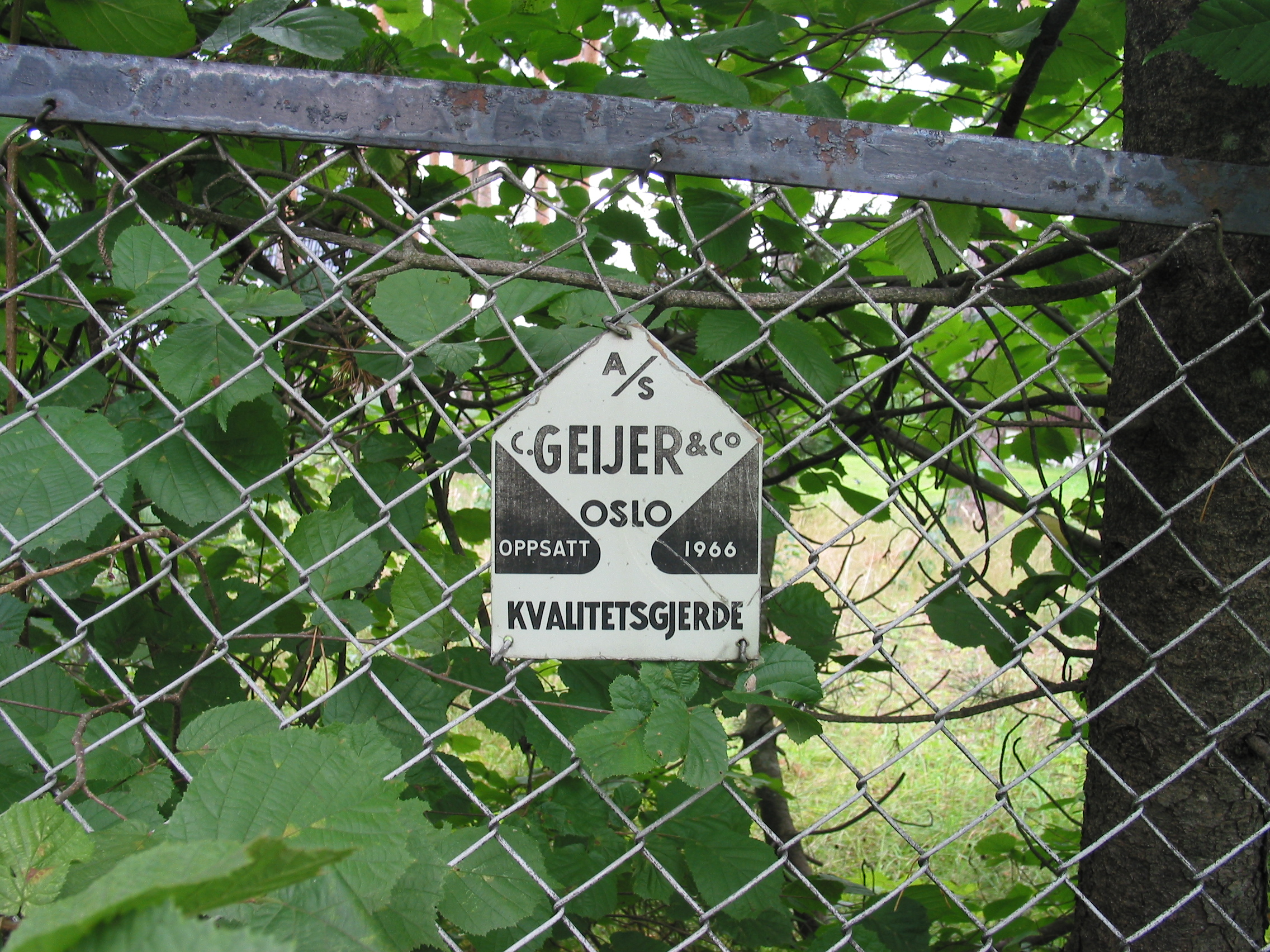 A fence in Stabekk, Norway set up and marked by the company C. Geijer & CO. A trace from older times in an otherwise modernized neighborhood.